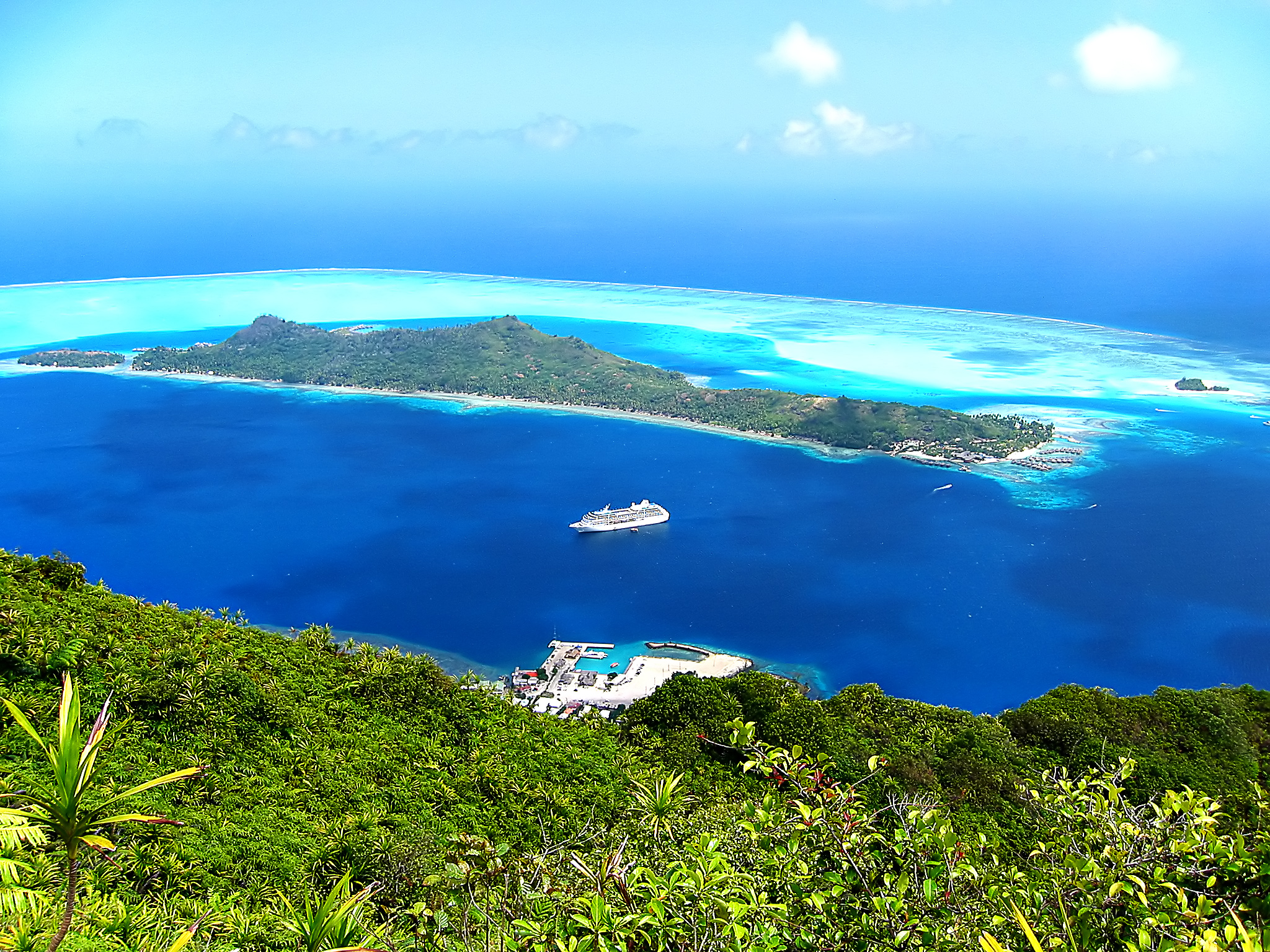 On Black